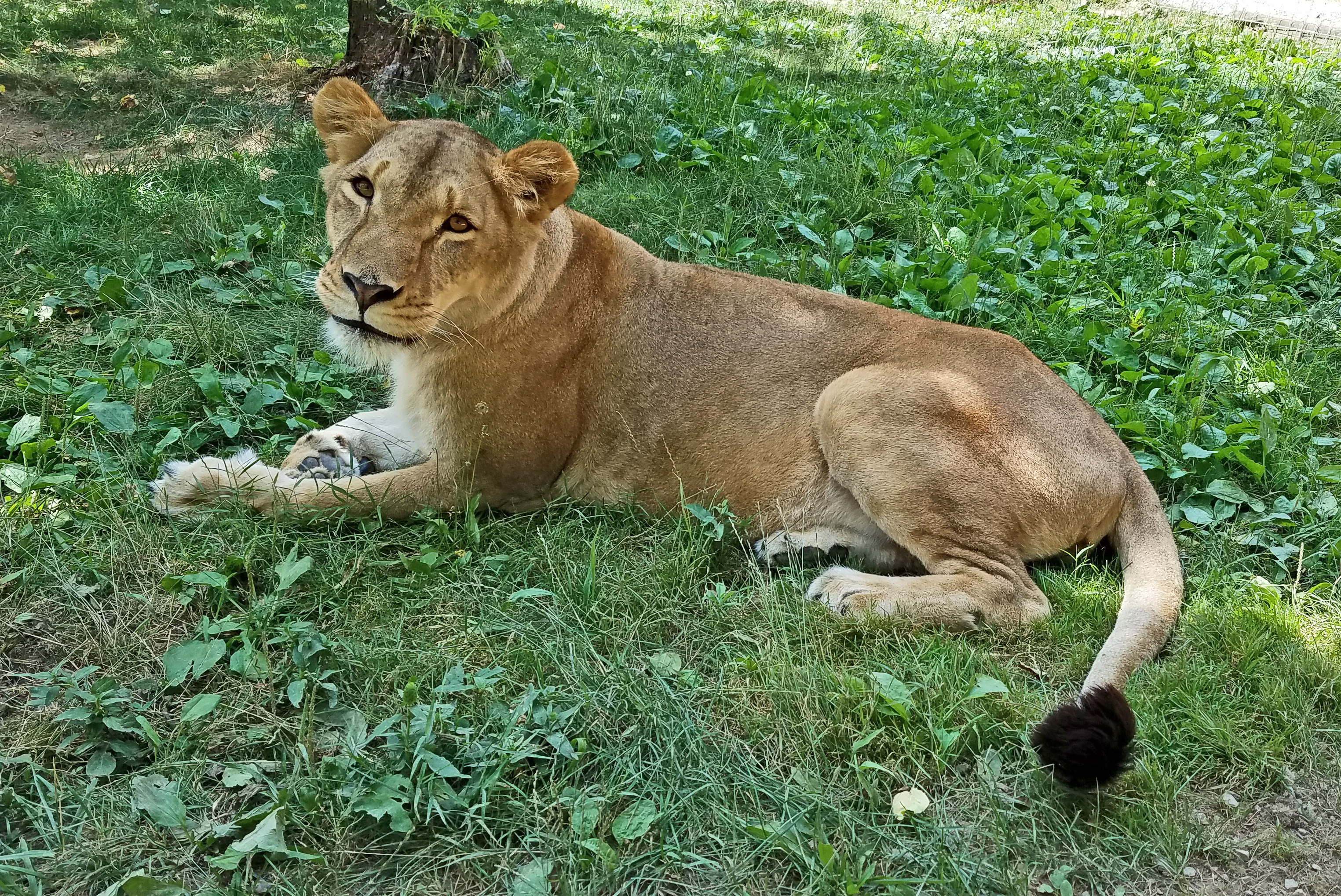 "Africa", a lioness, is among nearly 100 captive-raised exotic animals residing at Black Pine Animal Sanctuary